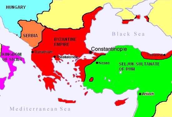 Byzantine empire and surrounding realms before 4th crusade of 1204.